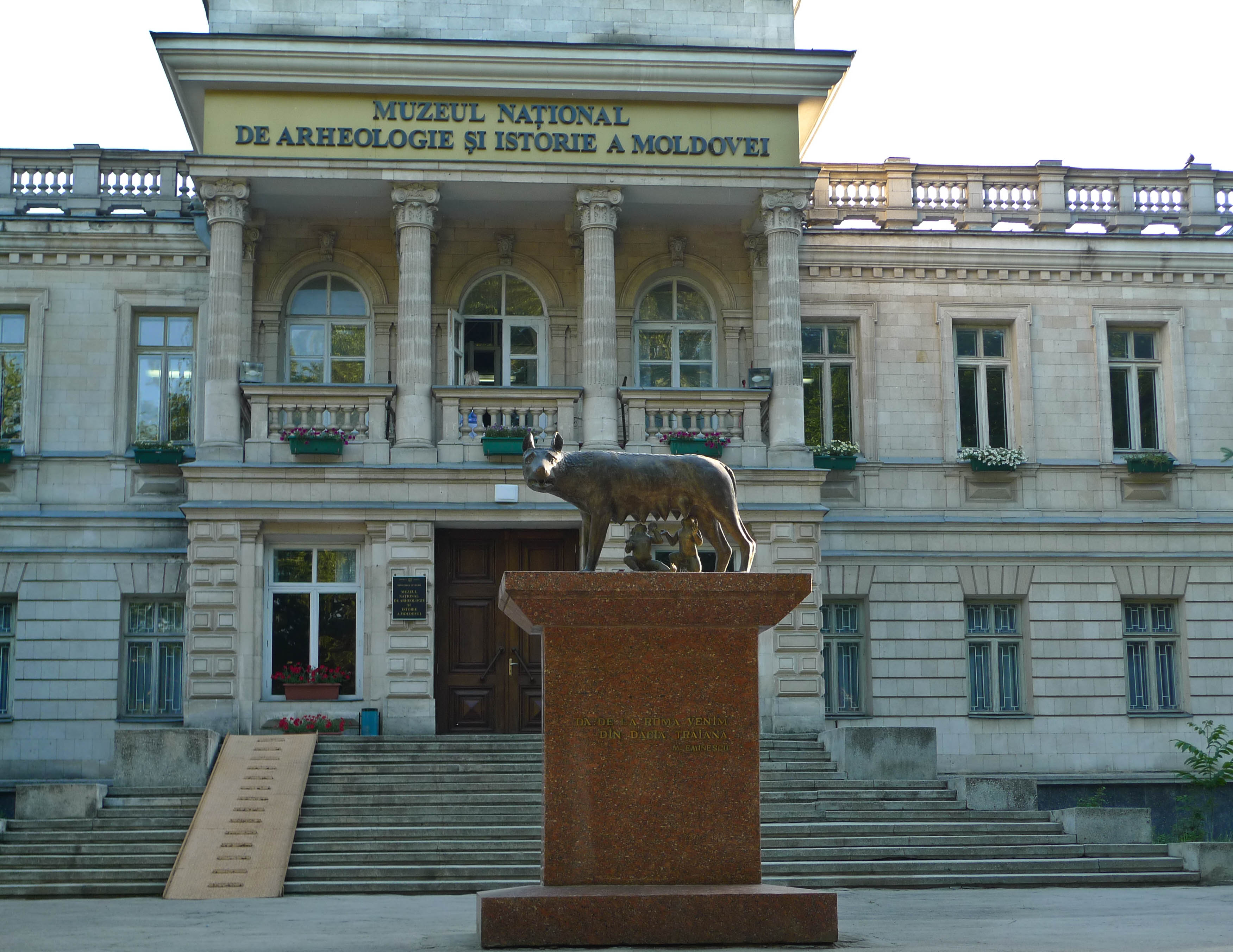 Capitoline Wolf in front of National History Museum of Moldova